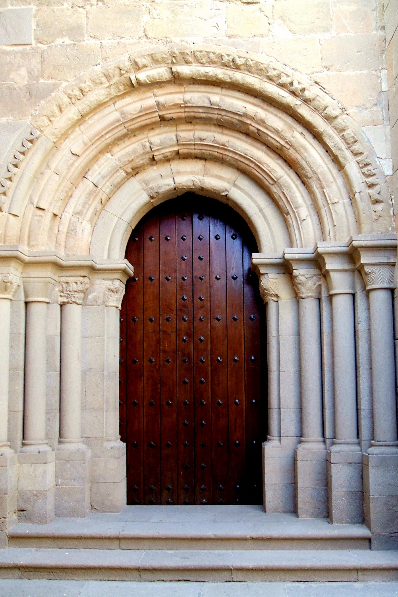 Portada románica (s-XII) de la iglesia del Monasterio femenino trapense (Cistercienses OCSO) de Santa María de la Caridad, en Tulebras (Navarra, España)